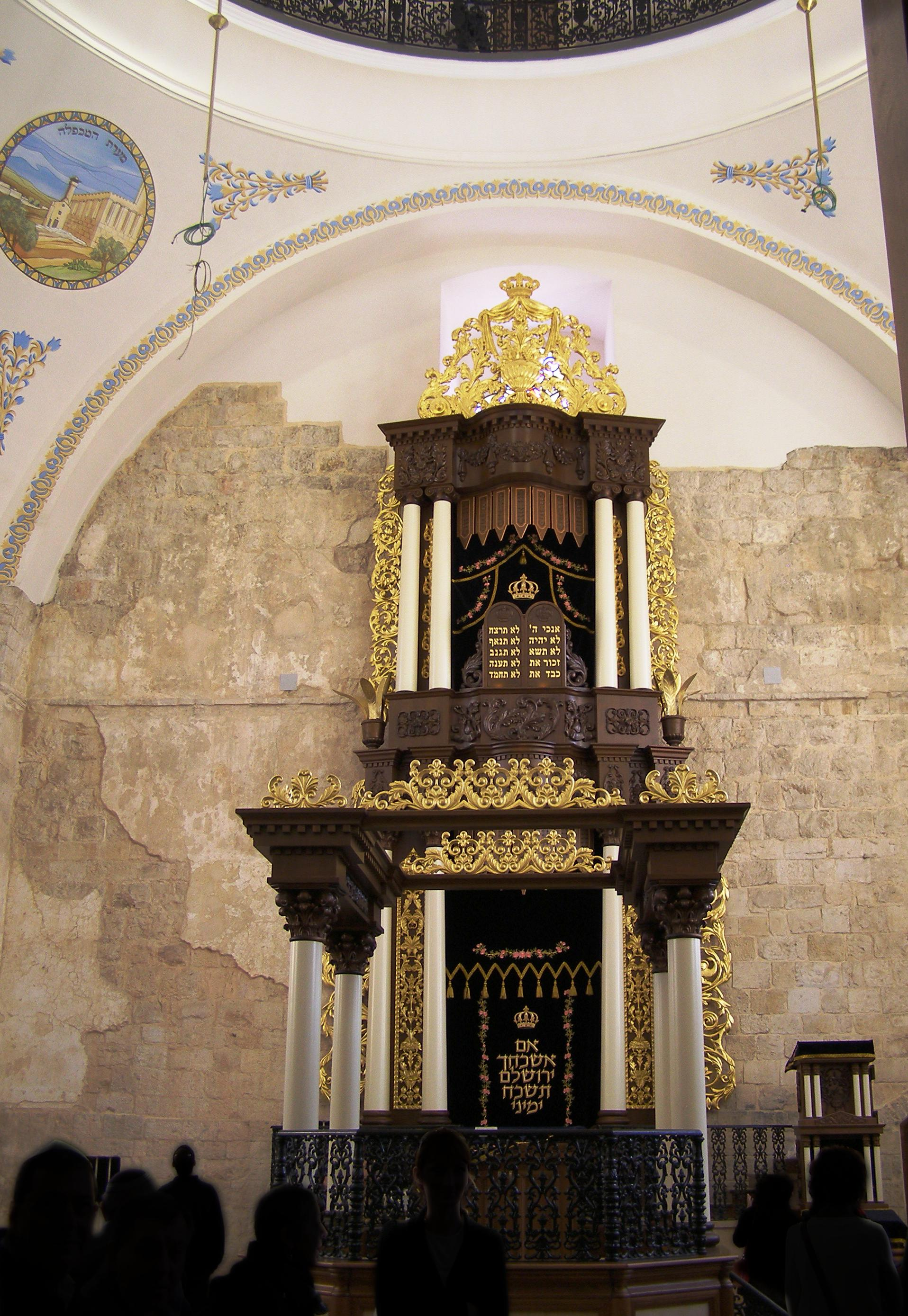 Hurva Synagogue